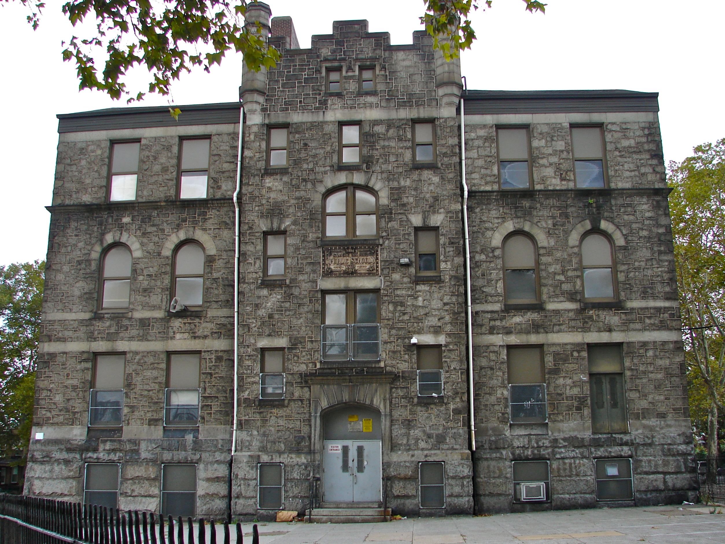 Simon Muhr Work Training School in Philadelphia on the NRHP since December 1, 1986. At 12th St. and Allegheny Ave. in the Nicetown–Tioga neighborhood